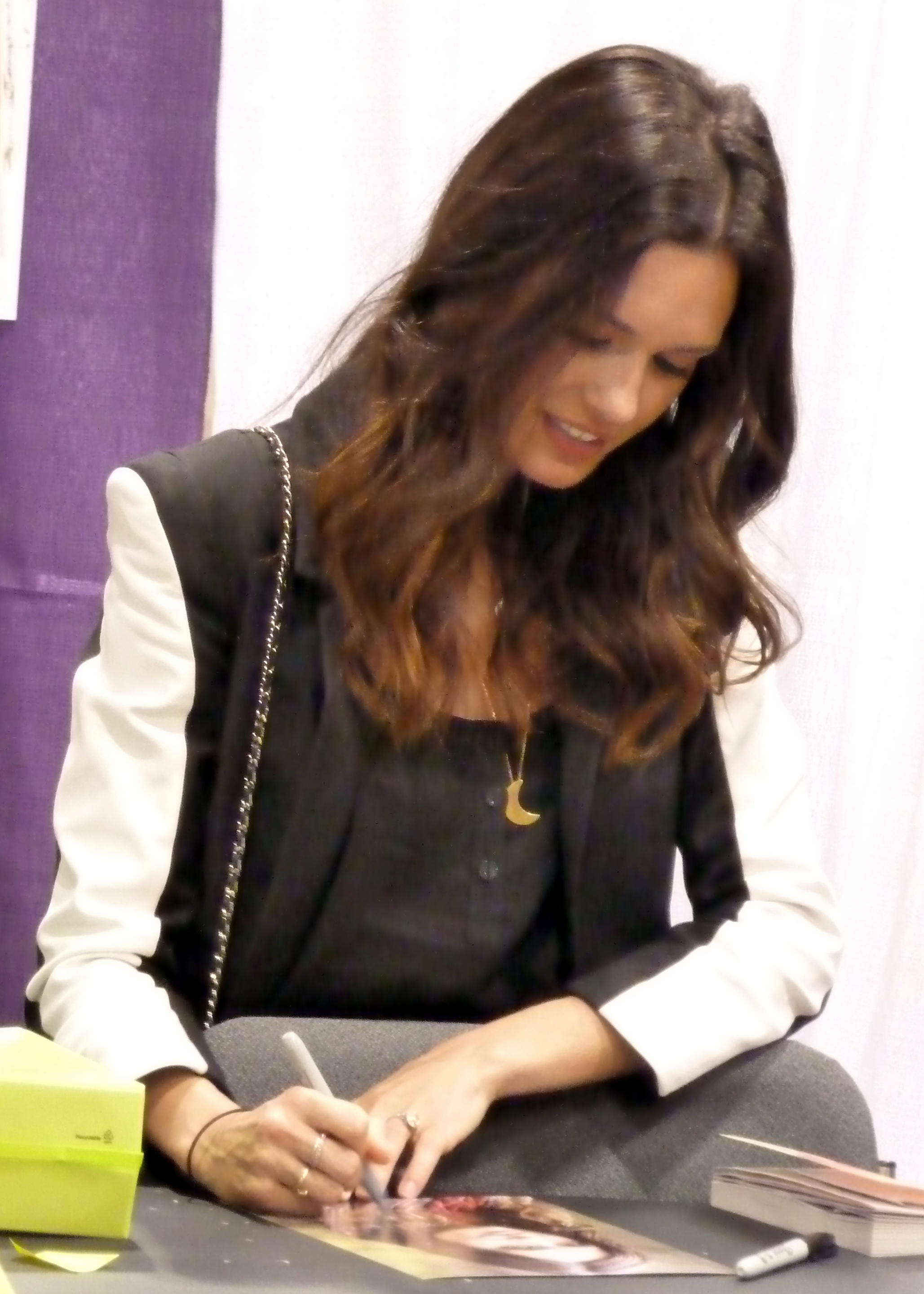 2012 Wizard World Toronto Torrey DeVitto from The Vampire Diaries